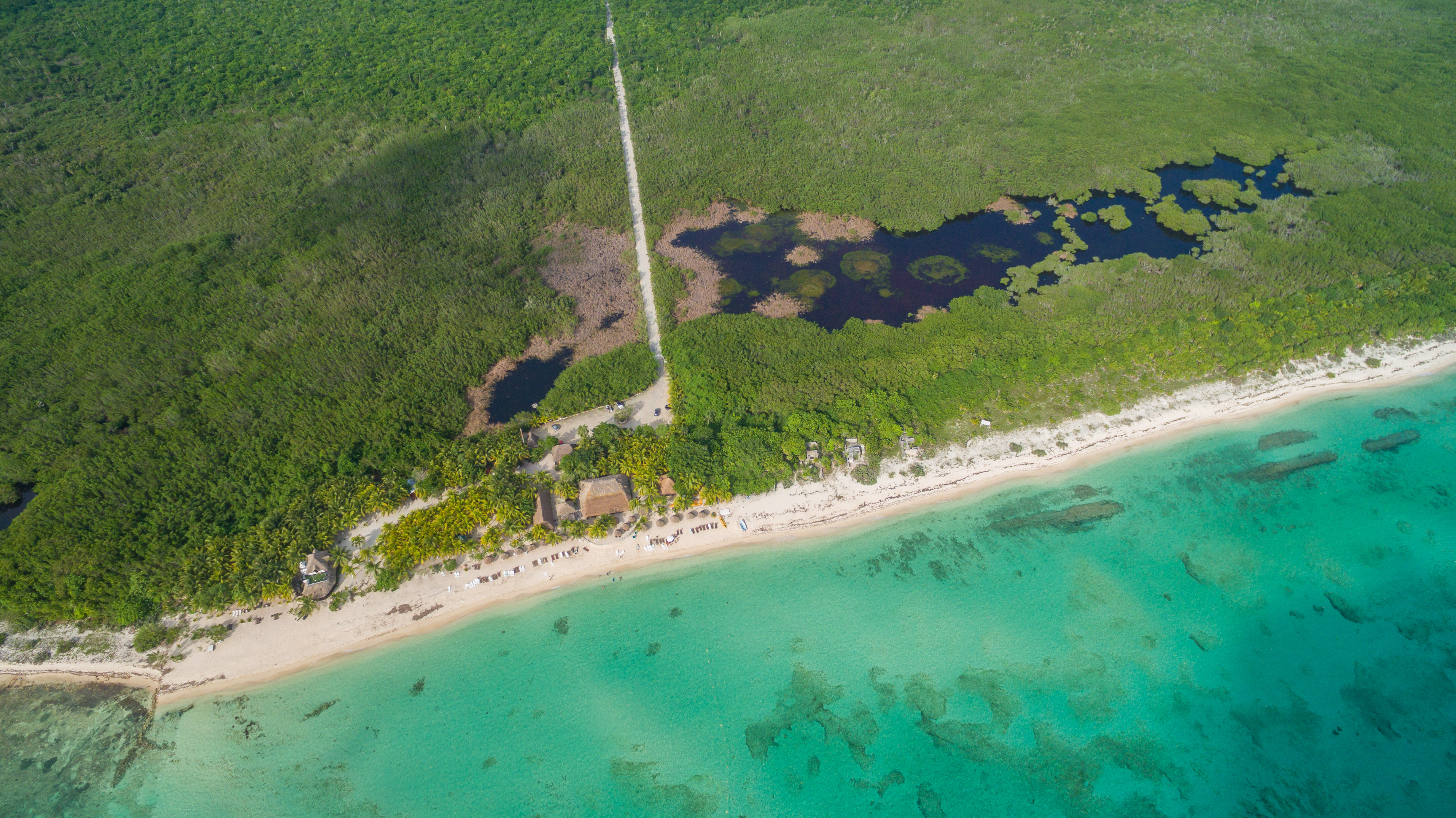 amazing picture shot with a drone in mexico.